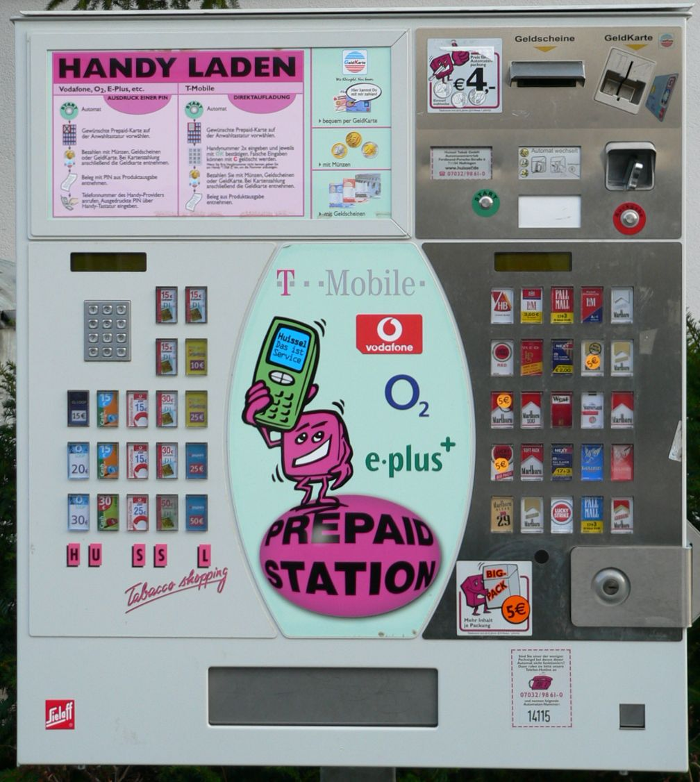 Vending machine for cigarettes and prepaid cards for mobil phones Automat für Zigaretten und Prepaid-Karten für Mobiltelefone Date: 2006-04-06 photographer: JuergenG Wikipedia account